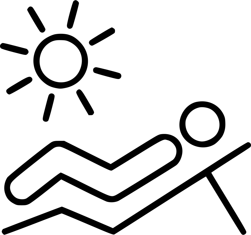 Black and white suntanning icon of man facing left and laying on a lounge chair with a bright sun shinning above the knees of his bent legs